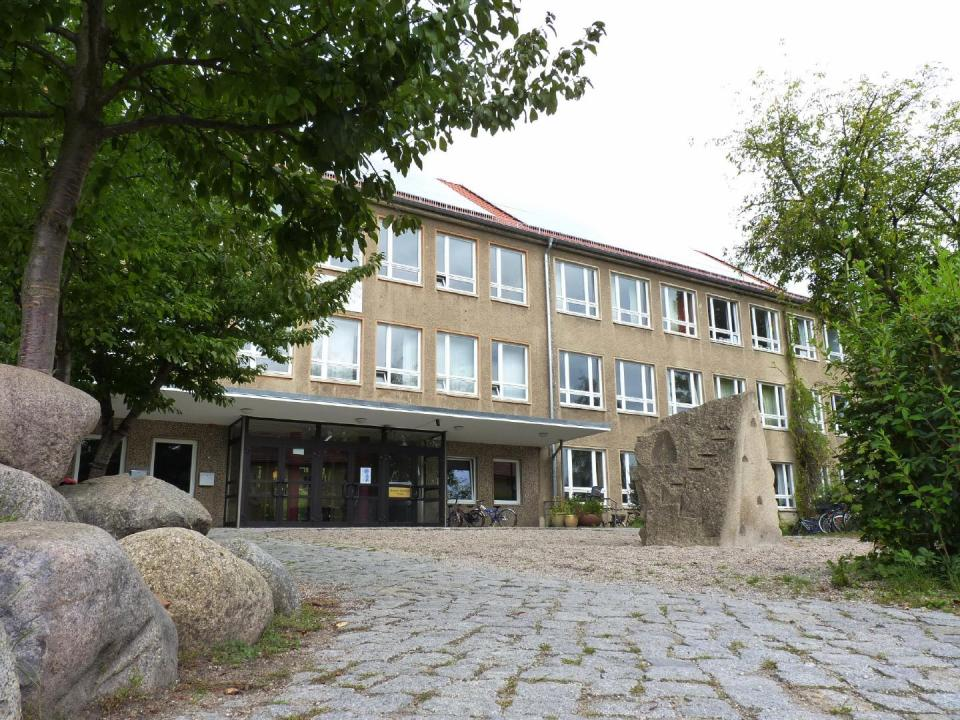 Montessori-School Potsdam, building